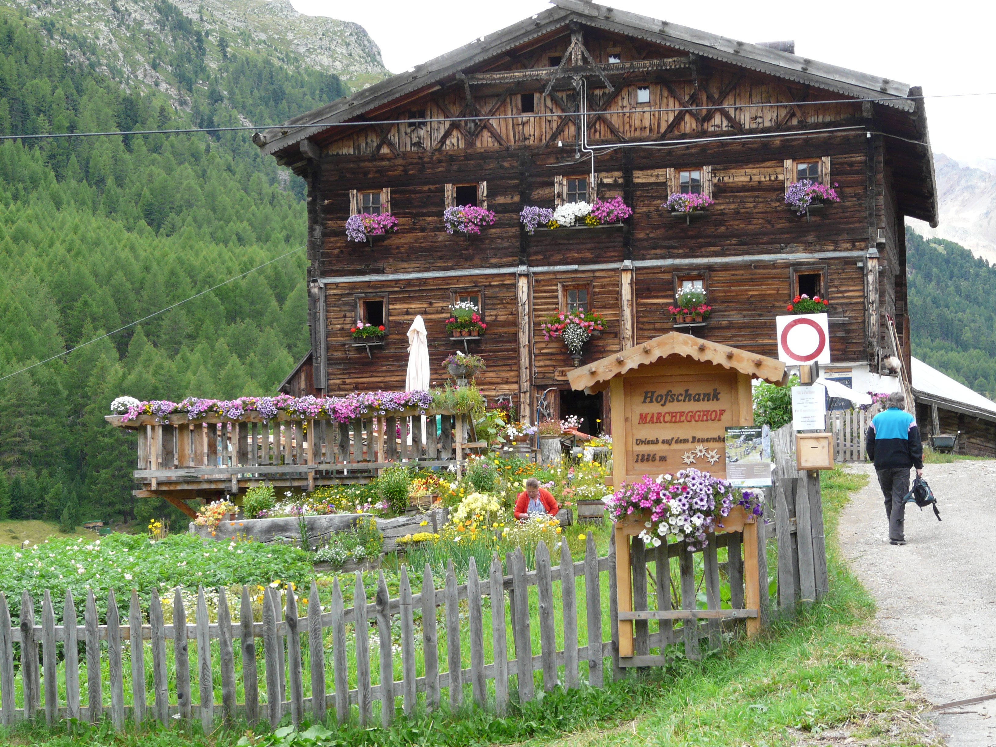 Marchegghof, Schnals